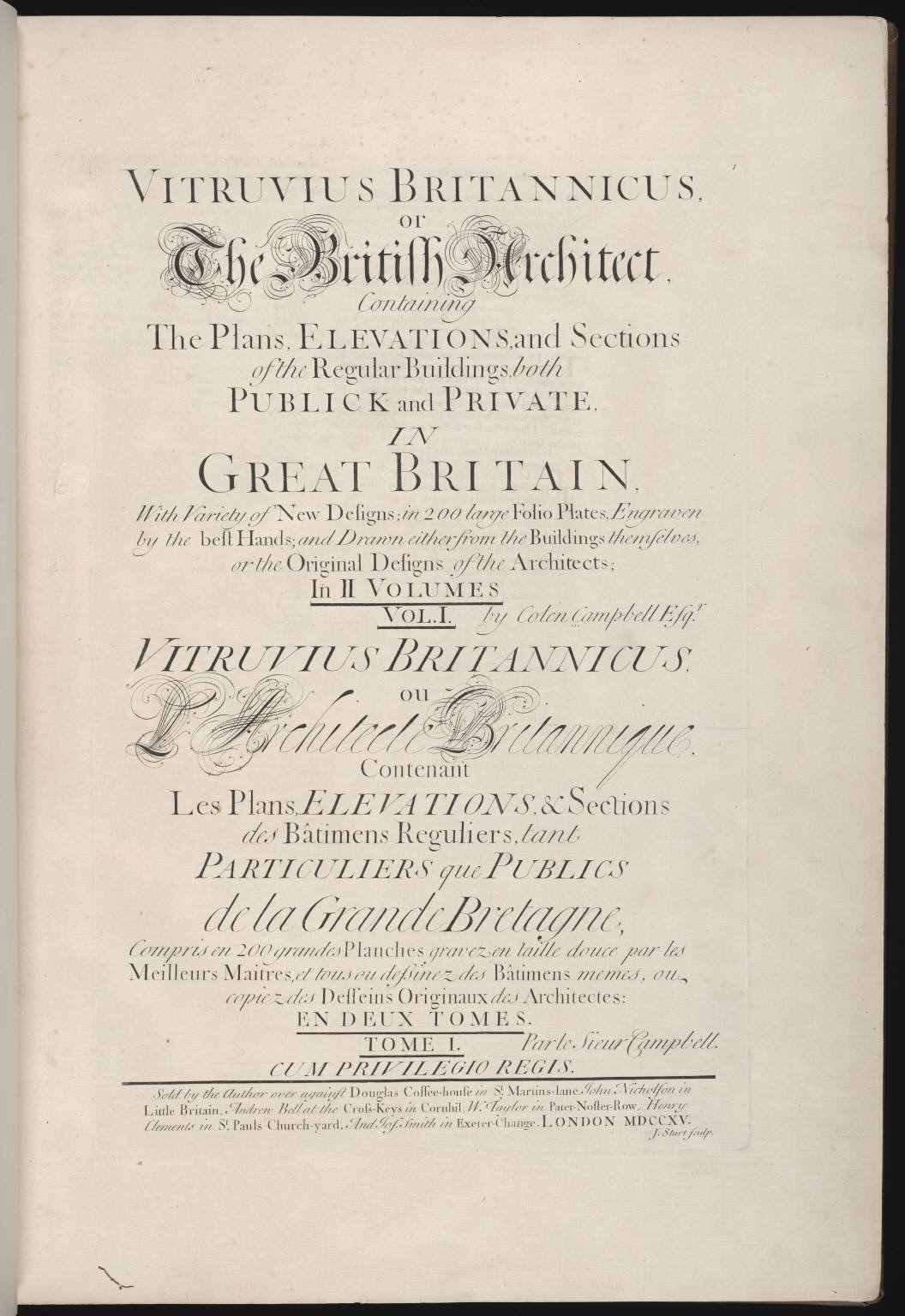 "Vitruvius Britannicus; or, The British architect, containing the plans, elevations, and sections of the regular buildings, both publick and private in Great Britain, with variety of new designs," title page, engraved illustration, vol. 1, written by the British architect Colen Campbell. Image courtesy of the General Collection, Beinecke Rare Book and Manuscript Library, Yale University, New Haven, Connecticut.